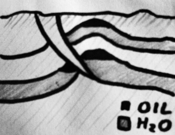 Sketch of Ghawar profile